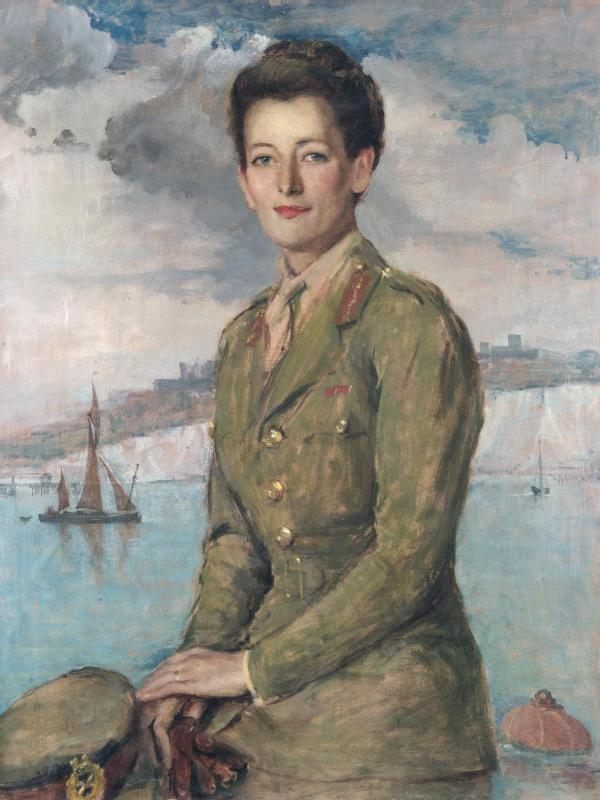 Mrs Jean Knox, Cbe - Chief Controller and Director, Auxiliary Territorial Service, 1942-3 image: A three quarter length portrait of Knox wearing ATS uniform with a coastal scene in the background.